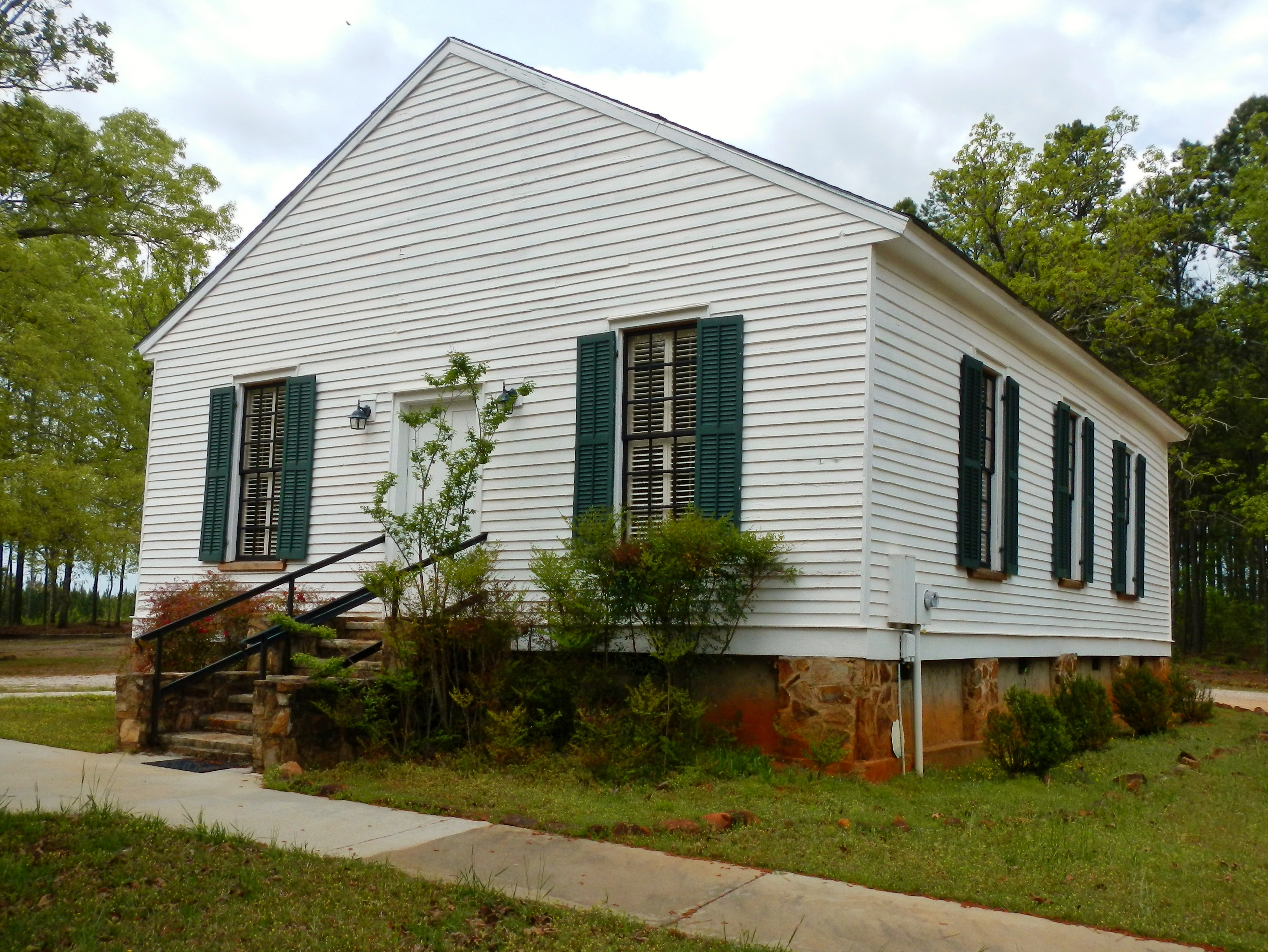 This is a photo of the Greenville Presbyterian Church and Cemetery in Greenville, GA.